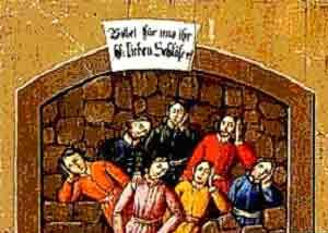 The Holy Seven Sleepers (painting, 19th century, South Germany, Clemens-Sels-Museum, Neuss).